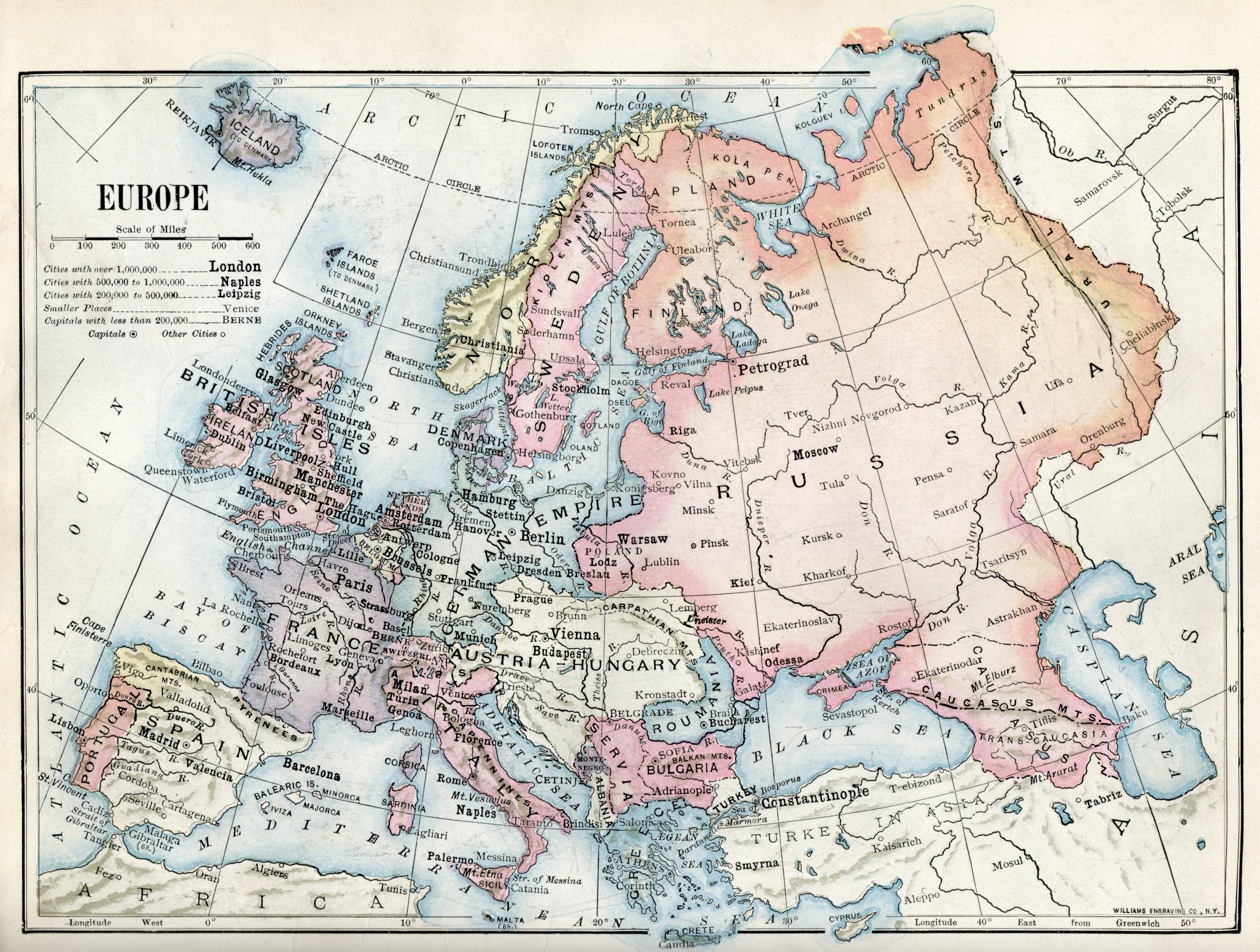 1916 political map of Europe from a geography textbook